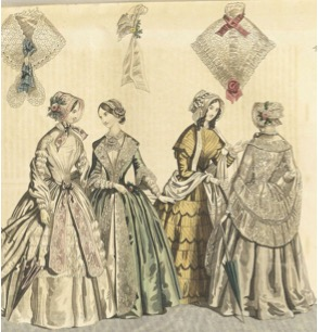 V-shaped necklines - covered by a Chemise. Funnel sleeves.